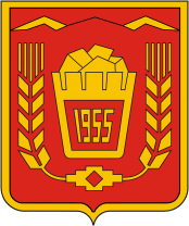 Sibai (Bashkortostan), coat of arms (1980)